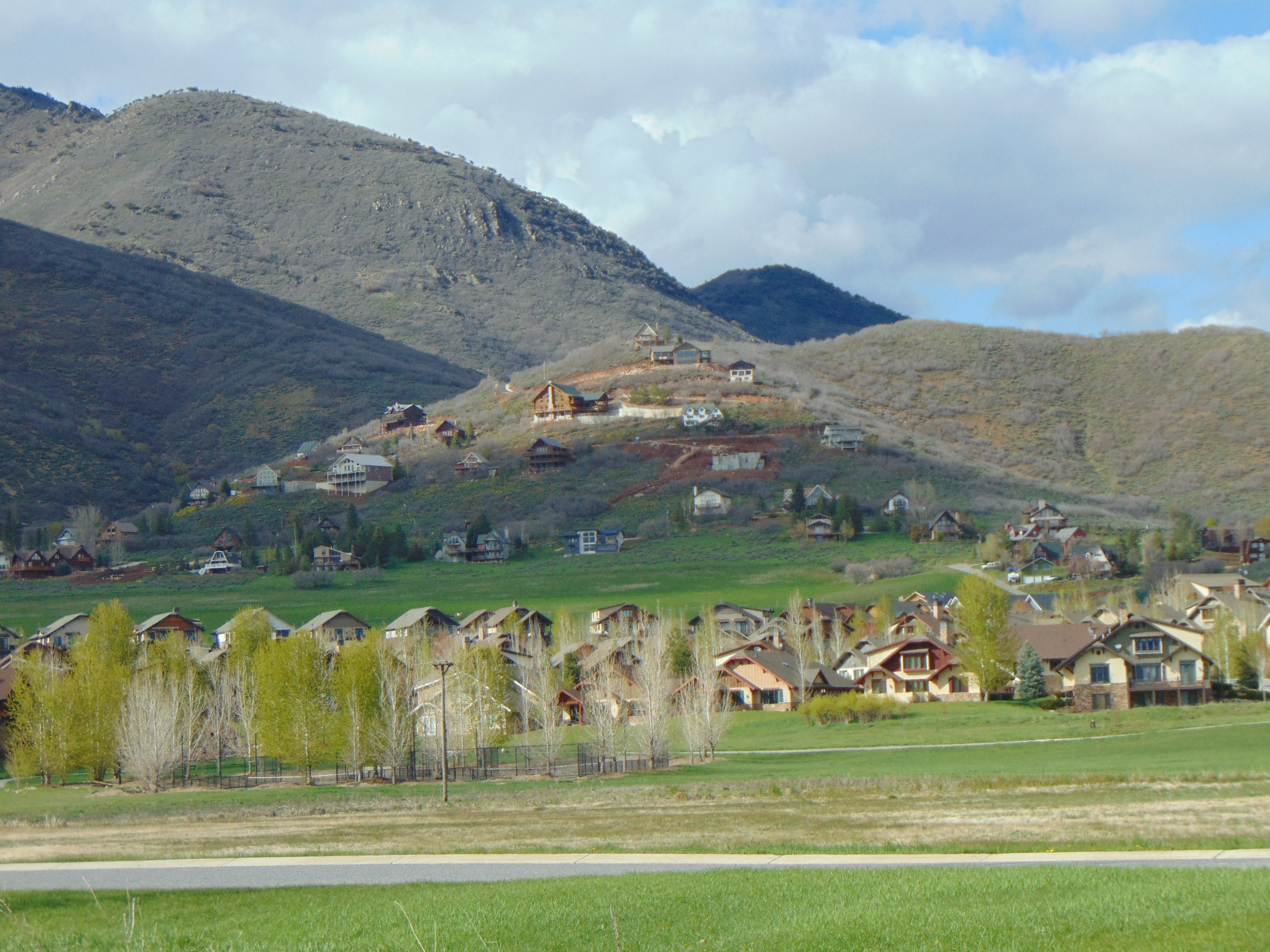 Looking north from about 50 east on Burge Lane (East 1050 North) in Midway, Utah toward Donkey Ridge, April 2016. The homes in the foreground are in Midway, but those on Donkey Ridge above are on the eastern end of the town of Interlaken. Just beyond is part of Wasatch Mountain State Park.